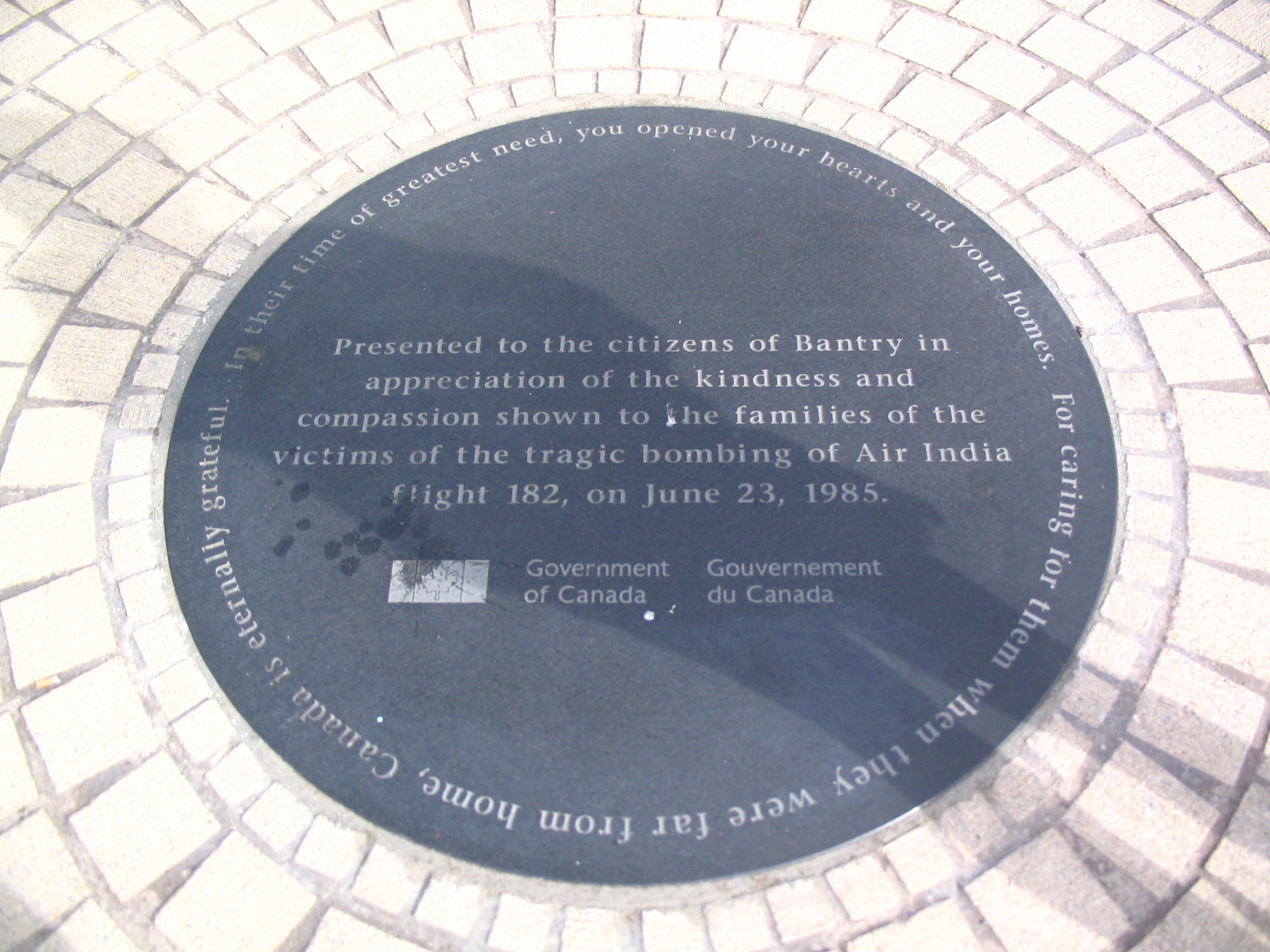 This plaque is dedicated to the citizens of Bantry, Ireland for their contributions to the victims of the Air India Flight 182 disaster.